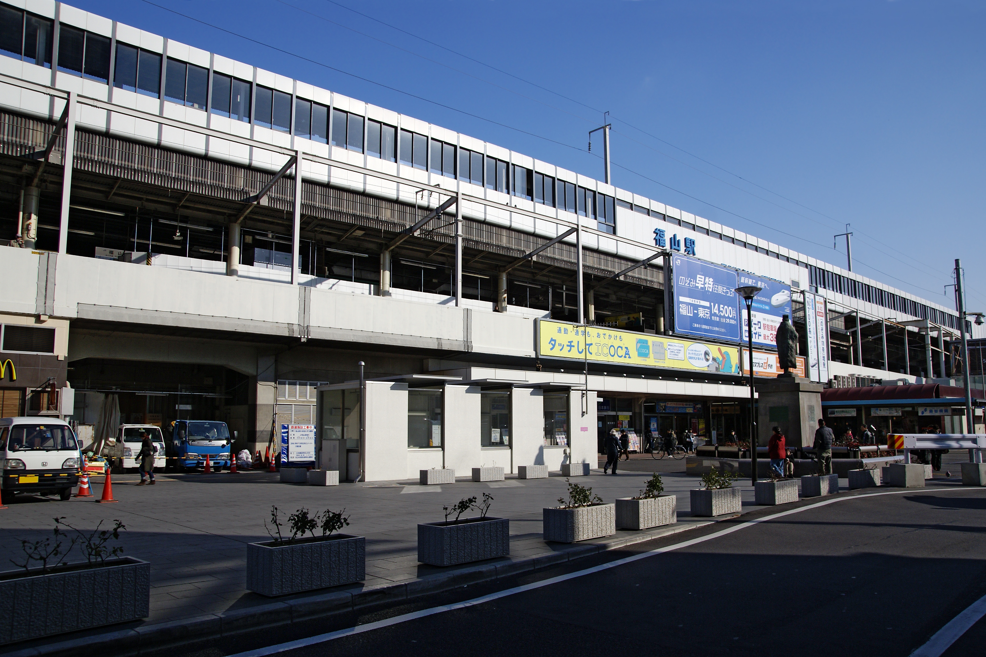 Fukuyama Station in Fukuyama, Hiroshima prefecture, Japan